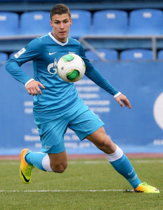 Aleksei Gasilin in action for FC Zenit St. Petersburg Youth